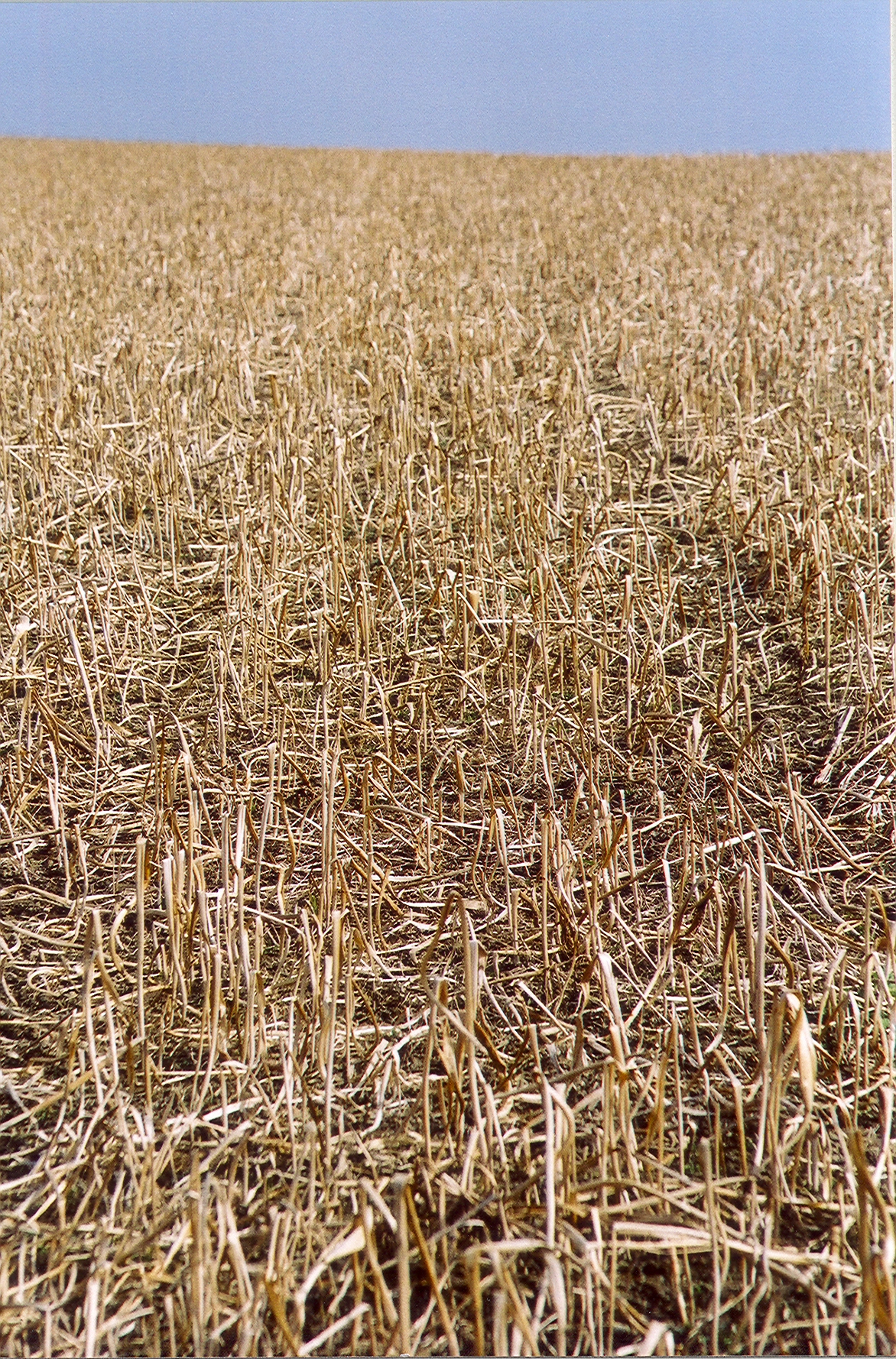 Cover crop, canton of Bern, Switzerland